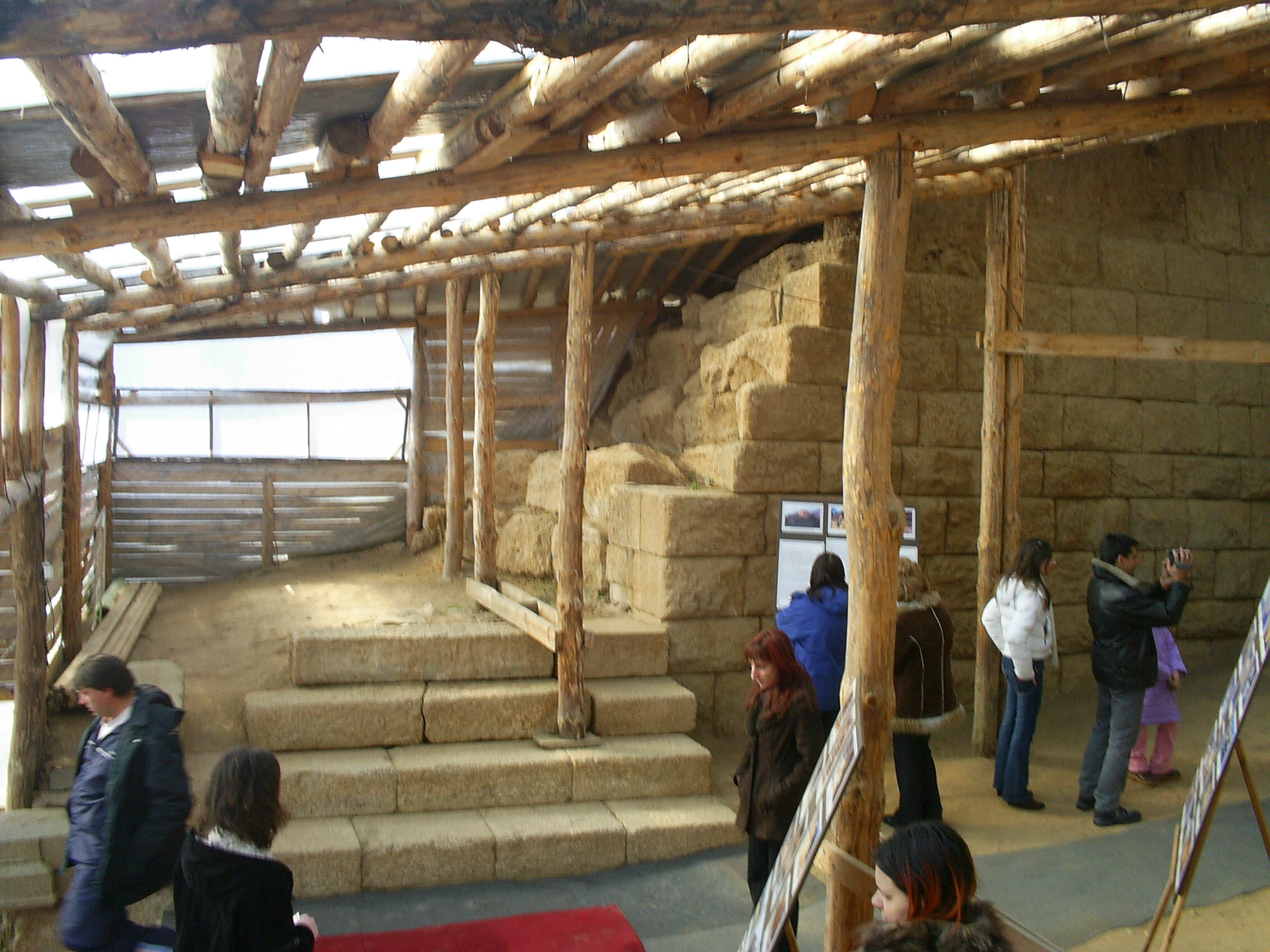 Thracian tomb near Starosel, Bulgaria